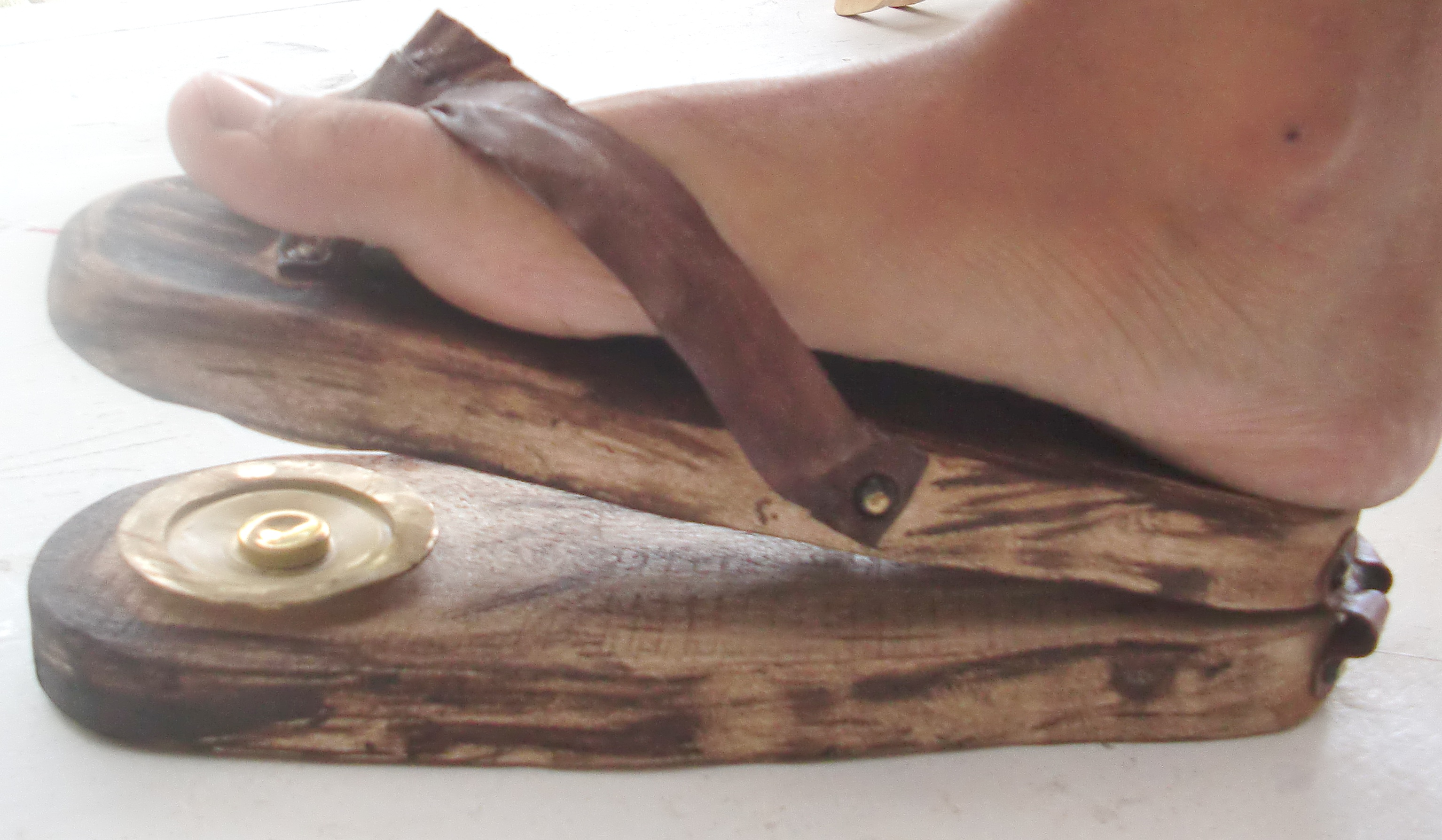 Scabellum